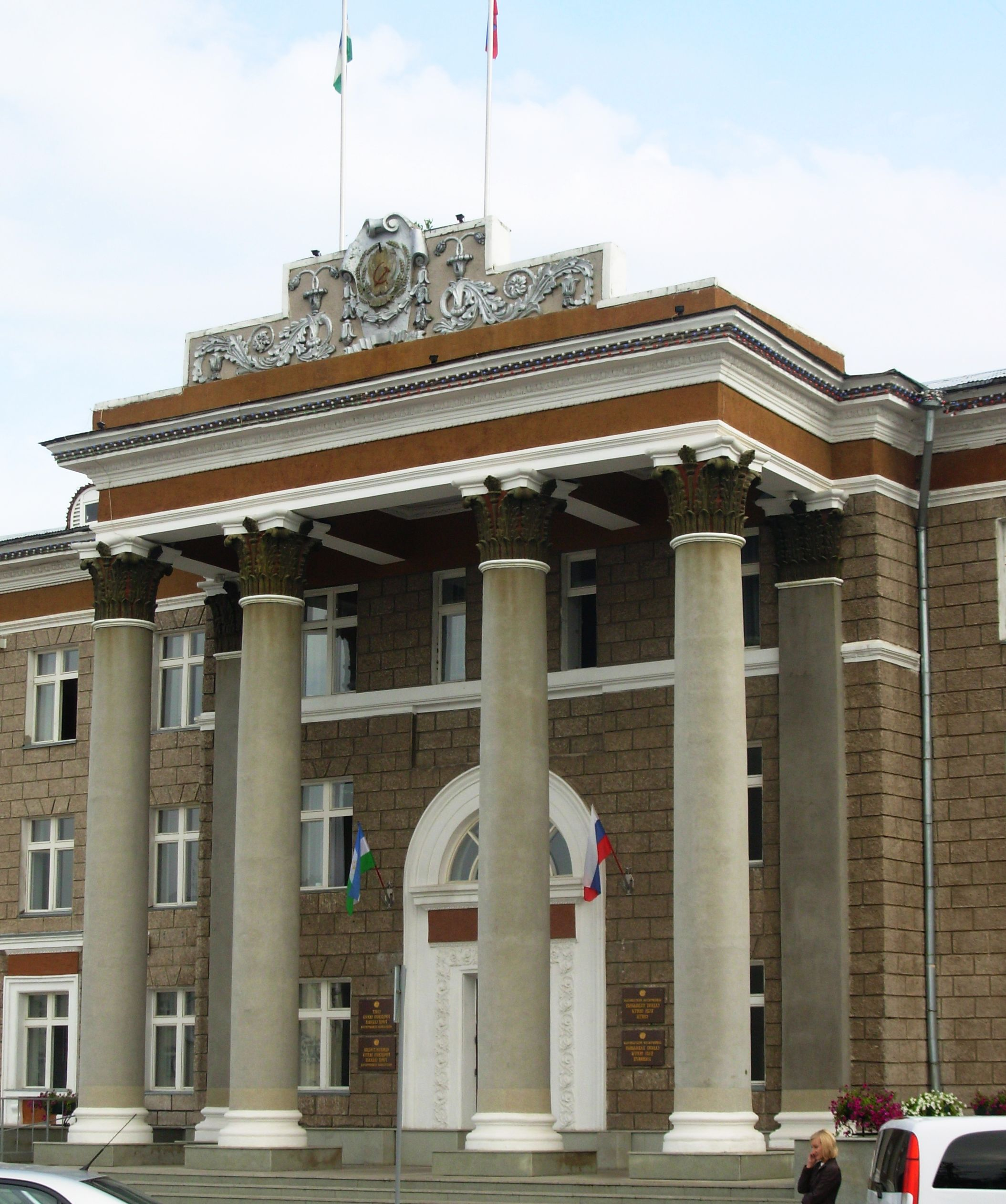 administration of Salavat